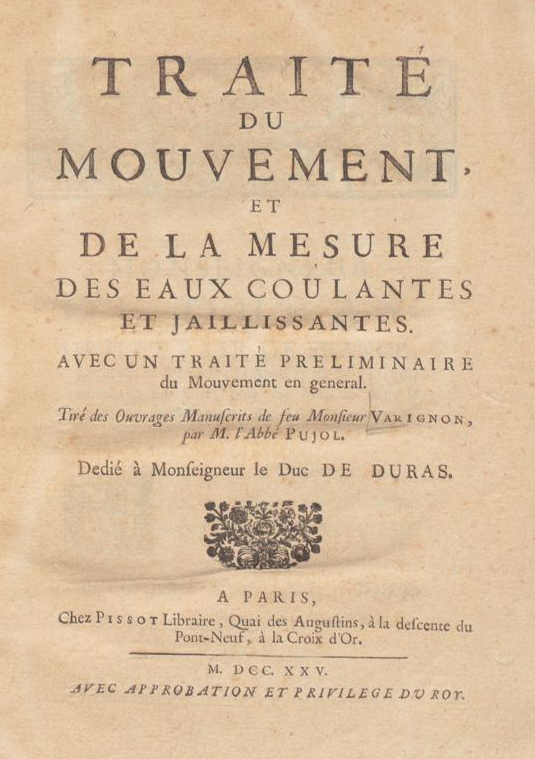 First page of Traité du mouvement et de la mesure des eaux coulantes et jaillissantes, performed from manuscript books of Father Pierre Varignon